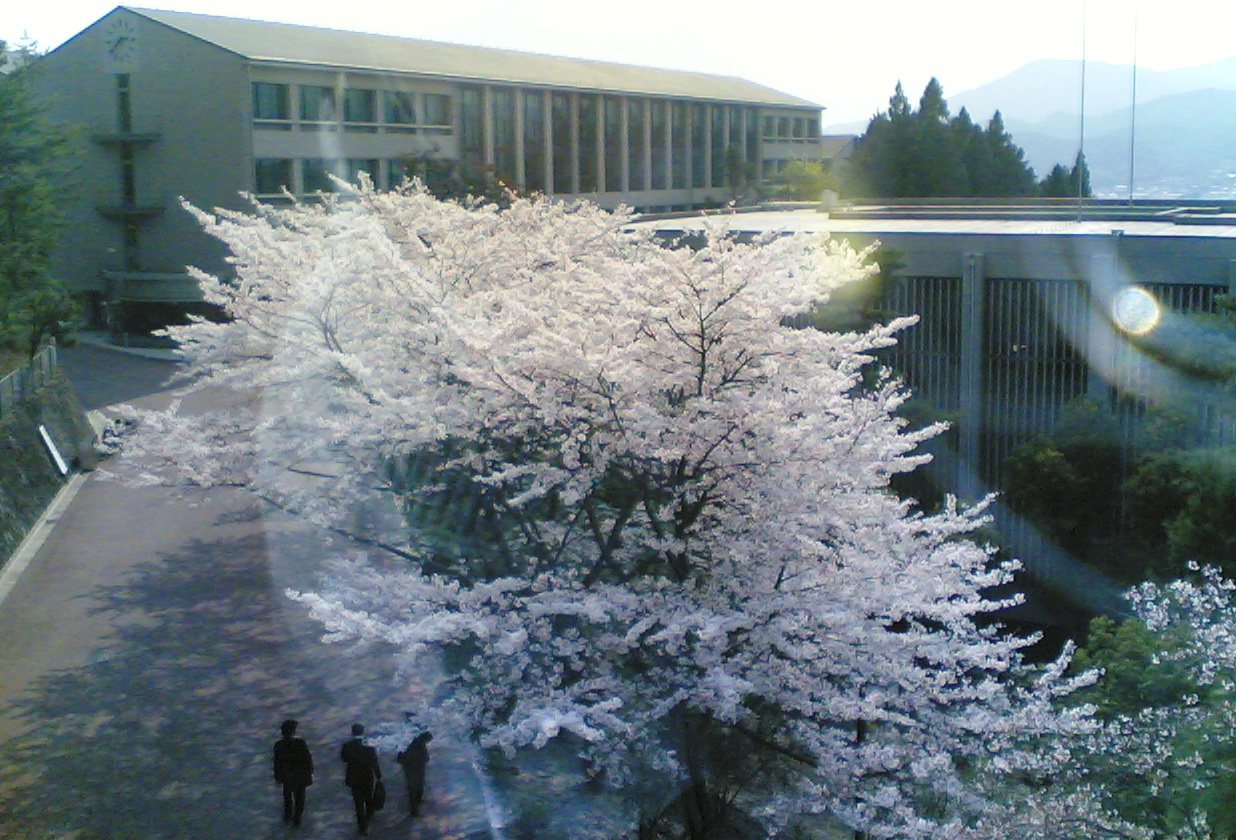 Kyoto Sangyo University. Located in Kita-ku, Kyoto, Japan. Photograph taken by the original uploader in April, 2007.